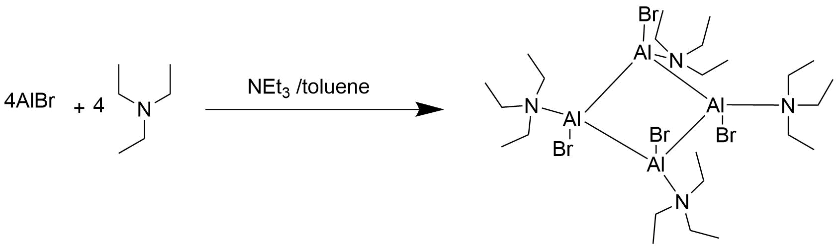 AlBr in lewis base solution, based off